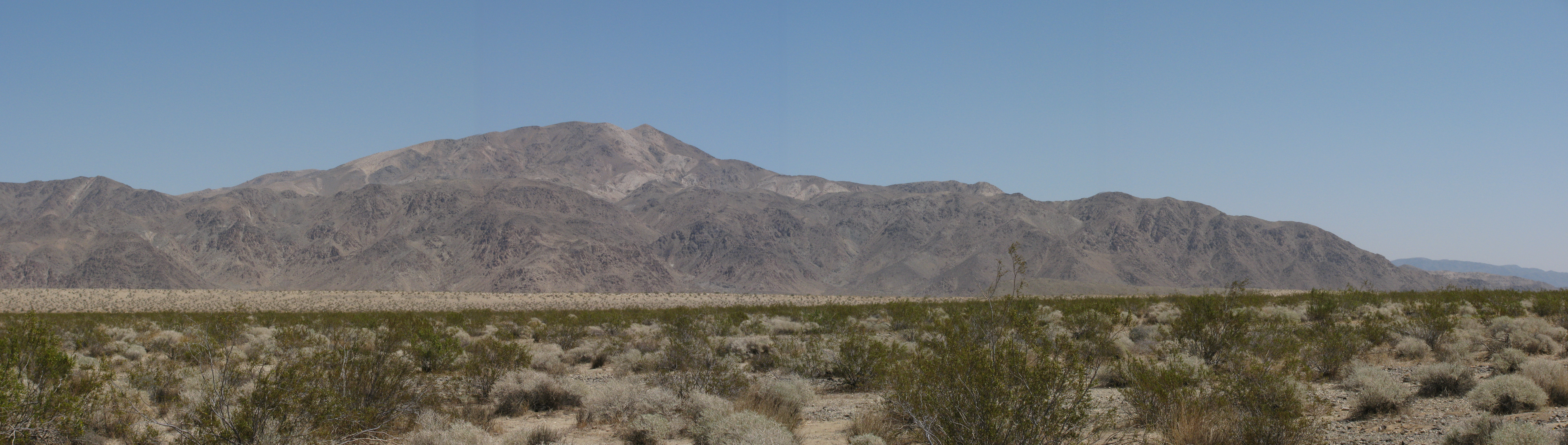 The Pinto Mountains in Joshua Tree National Park, in California, USA, seen from the south looking north